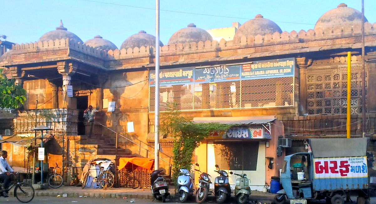 the mosque was built in 1486 during the reign of Sultan Muhammad Begada (r.1459-1511) by Dastur Khan, one of the sultan's ministers. Within this mosque complex, the tomb of Dastur Khan is located near the south doorway in an open courtyard. The courtyard walls within the mosque complex are decorated with perforated jail screens.